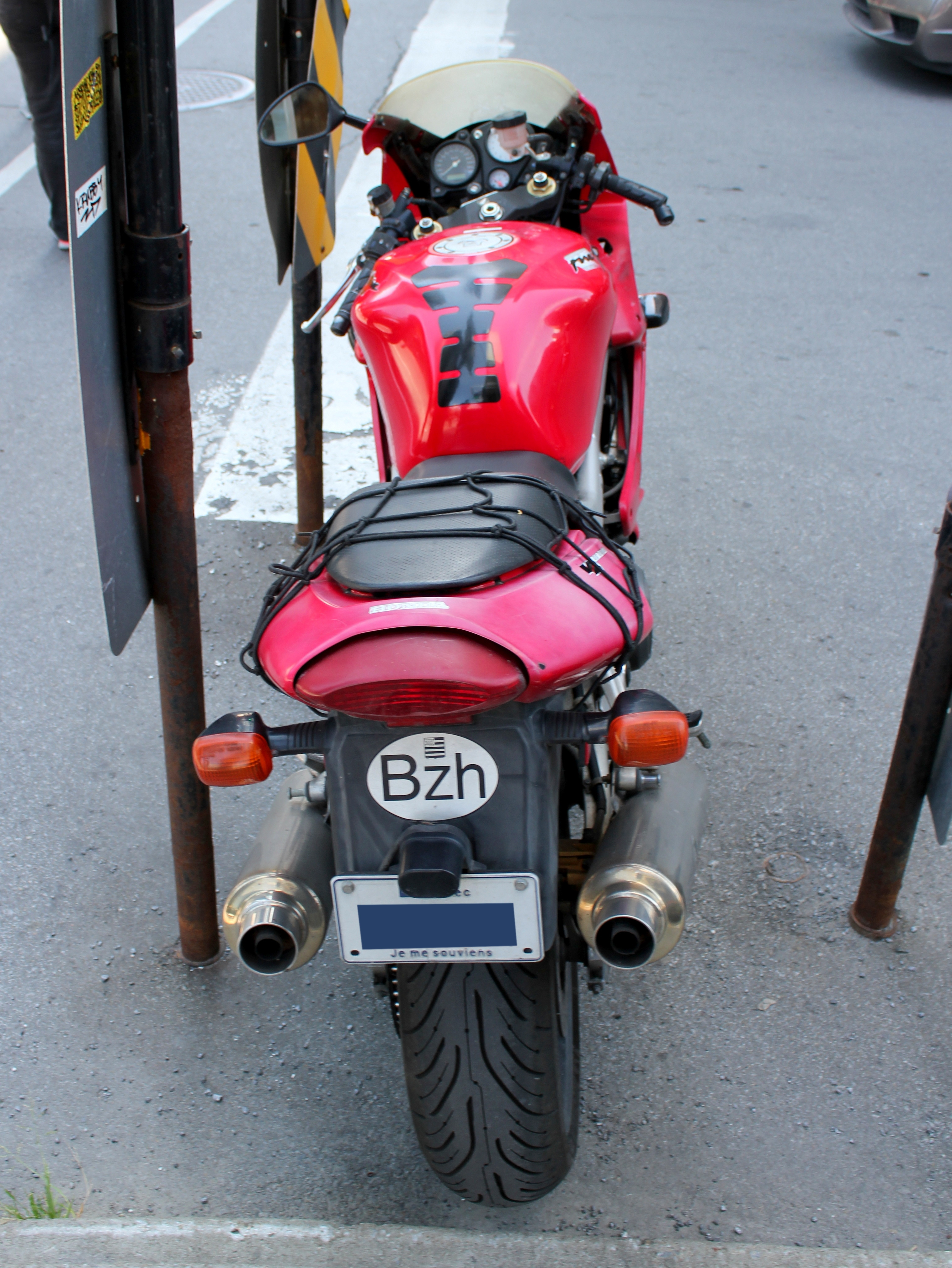 A Brittany country code sticker on a motorbike.